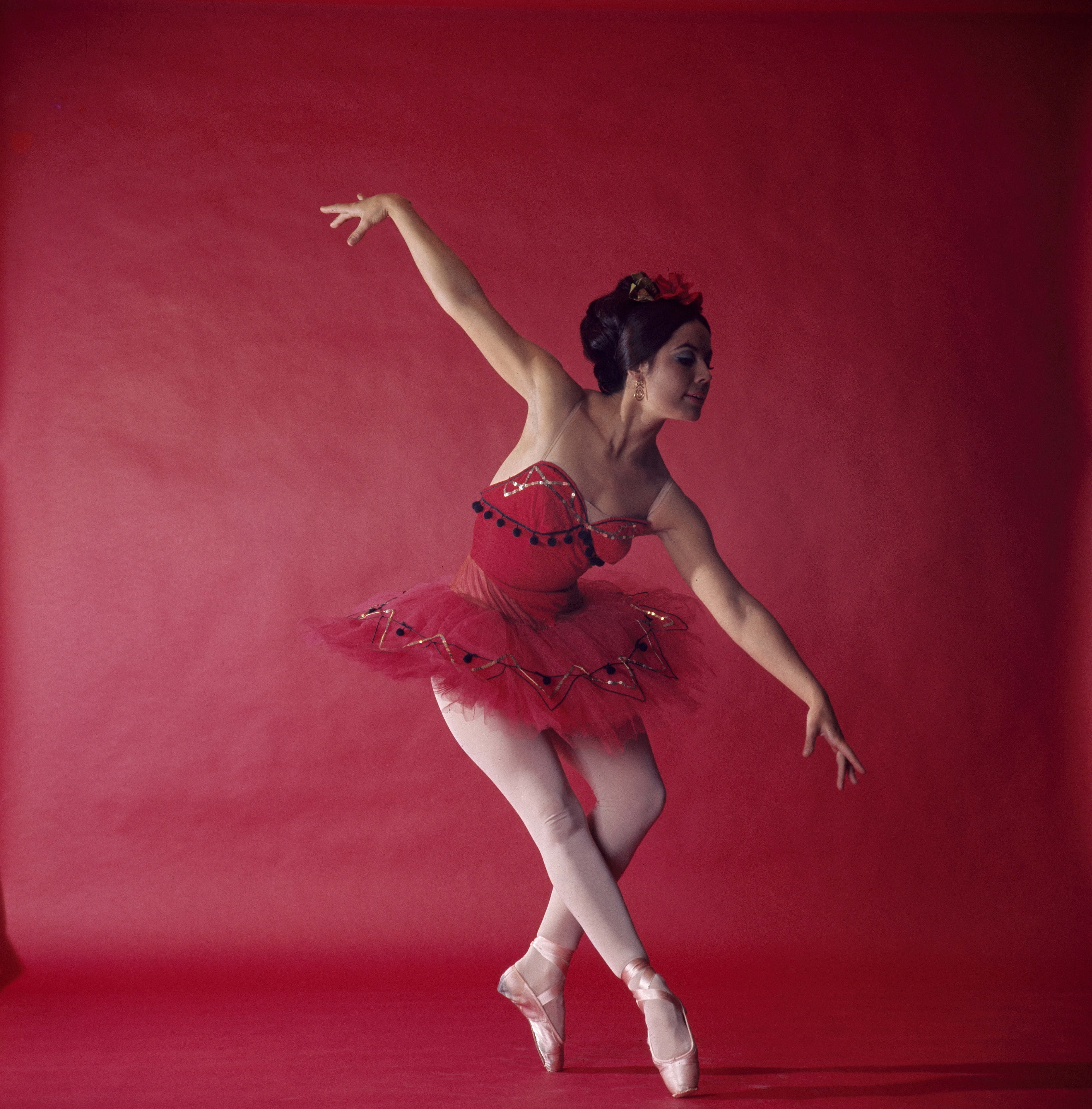 Photograph of the Finnish ballet dancer Marianna Rumjantseva (1940–).